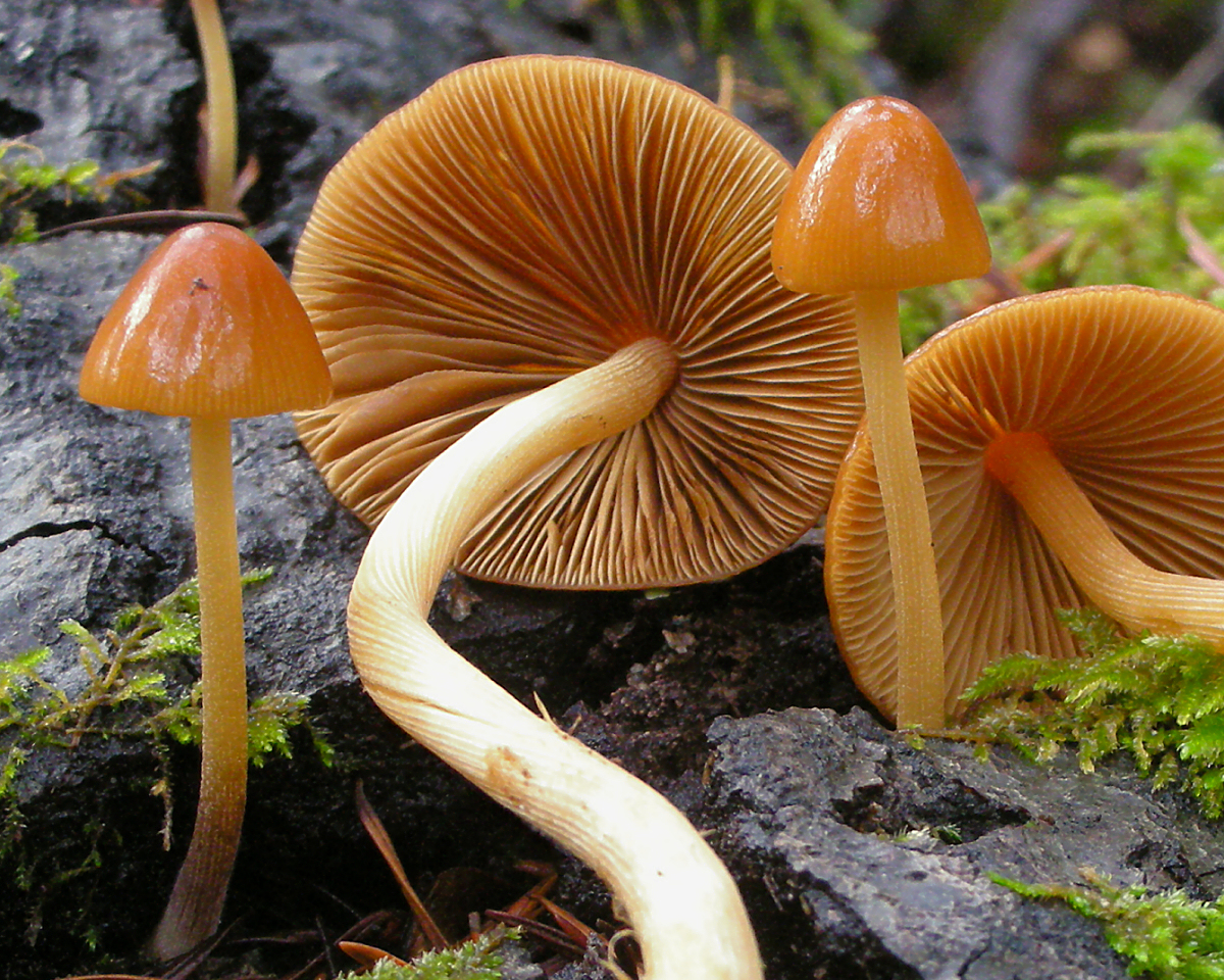 Conocybe tenera (Schaeff.) Fayod Image location: San Geronimo, Marin Co., California, USA These had a brown to cinnamon-brown spore print. They had caps that ranged from about 1.0 cm to 3.8cm across, and no sign of a veil or annulus. The stipes ranged up to 9.0 cm long and were hollow. The gills were thinly attached. The spores were approx. 10.0-11.0 X 6.5-7.0 microns. Even with my poor spore photos, one can see a distinctive truncated end or apical pore on most of them and probably a plage. I think Galerina is at least the right genus, but without the Smith monograph there aren’t many options to pick from, although G. cedretorum in Arora would appear to be close. Used references: They do seem to fit the description for Conocybe tenera in Mushrooms Demystified including the spore size and apical germ pore. For more information about this, see the observation page at Mushroom Observer.